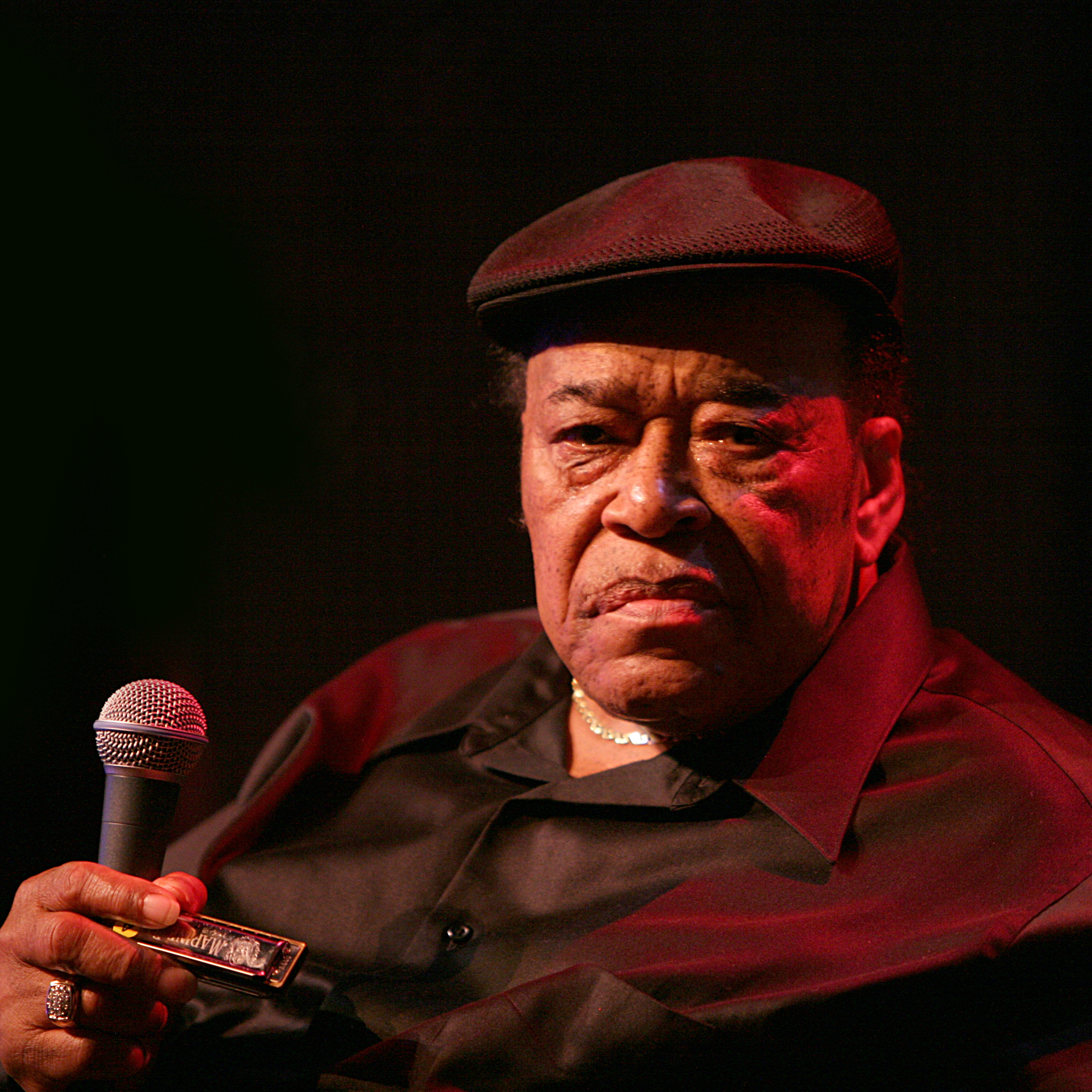 James Cotton 2007